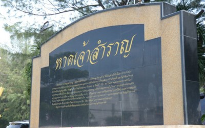 Haad Chao Samran welcome sign